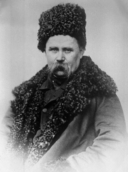 Photo of Taras Shevchenko, St. Petersburg, 1858